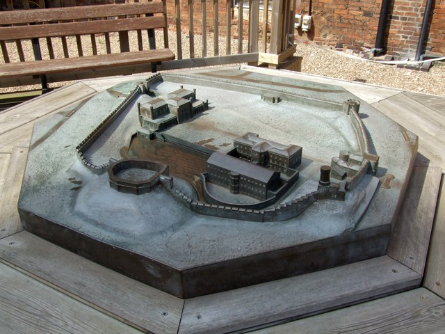 Lincoln Castle, Lincoln A cast metal diorama of the Castle stands between the Victorian and Georgian prisons. This is roughly the view you would get if you were flying over the castle from a southerly direction. Clockwise, starting from the Lucy Tower, which breaks up the south wall, is the Medieval 15-sided Keep standing on the original motte of the Castle. Where the south and west walls meet at the corner, is the furthest extent of the Wall Walk, the southern wall being insurmountable. Almost at the corner of the west and north wall is the West Gate. In medieval times it led to open countryside. It was sealed up in the fifteenth century and reopened again in recent times. The large building which stands near the West Gate is the working Crown Court, built between 1822 and 1826. Continuing clockwise brings us to the Bath House, which stands almost at the centre of the north wall. It was used as the prison laundry by the inmates in the 19th-century. Far right is the Cobb Hall, a 13th-century Medieval Tower, which was used for defence, imprisonment and public execution. Heading south on the east wall is the East Gate, the main exit/entrance to and from the City. The two large buildings are former prisons. Nearest the gate is the Georgian Prison building, which was built in 1787. Next to it is the Victorian Prison built between 1845 and 1846. In the south east corner of the wall and at the beginning of the Wall Walk is the Observatory Tower. The part Norman, part 14th-century square tower was built on the smaller second motte. The observatory turret was added by a governor of the prison, in the 19th-century. This tower has the highest vantage point of the Castle and provides excellent views, especially of the Cathedral.